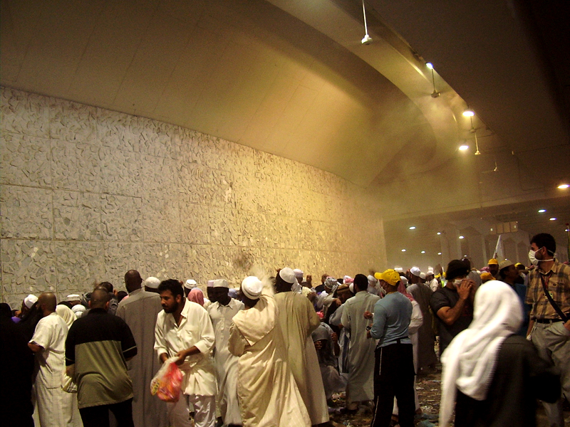 Stoning of the devil — 2006 Hajj. After reconstruction because of earlier stampedes.